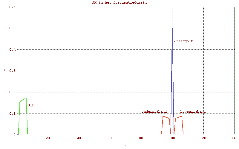 Frequency spectrum of an AM modulated carrier signal.